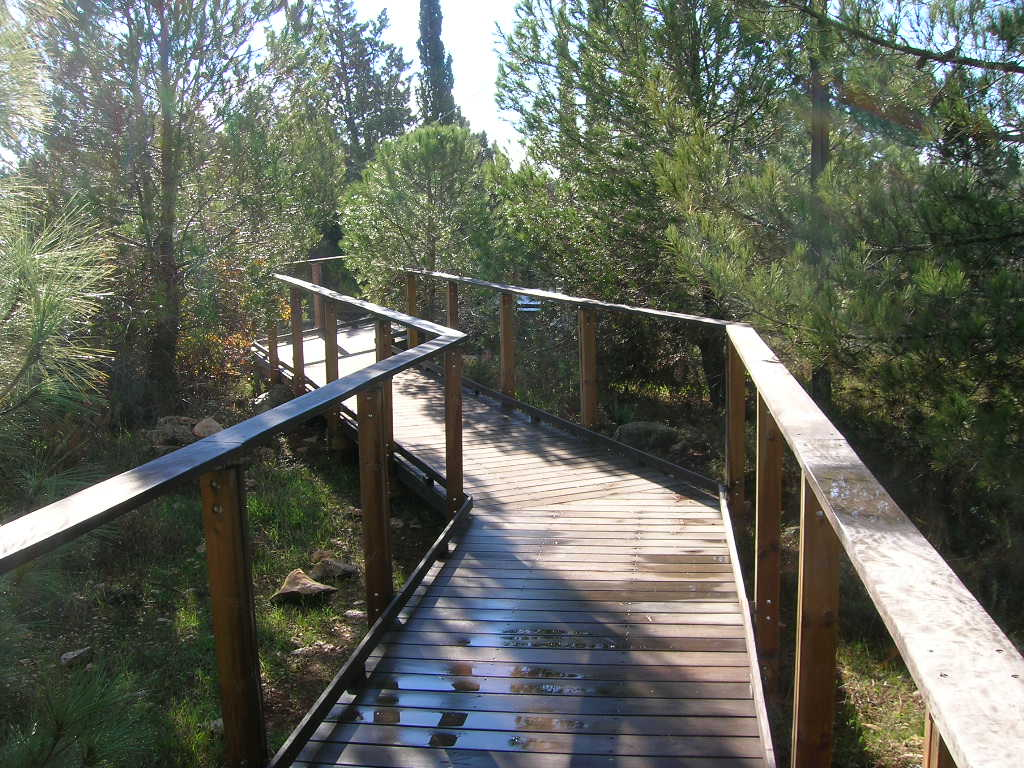 This picture shows a part of the Ecology Boardwalk in the Edmund J. Safra campus, of the Hebrew University. The boardwalk was made by the Nature Parks and Galleries, a sub-unit of the university